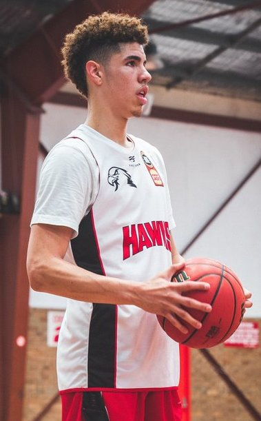 LaMelo Ball with the Illawarra Hawks in August 2019